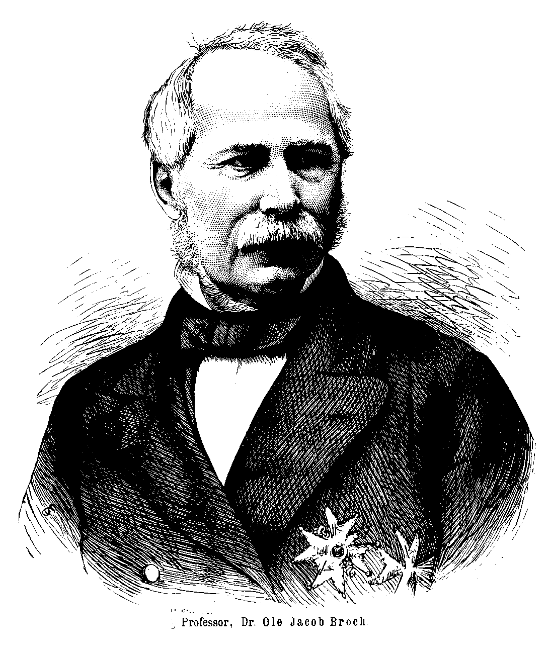 Norwegian scientist and politician Ole Jacob Broch. Engraving.